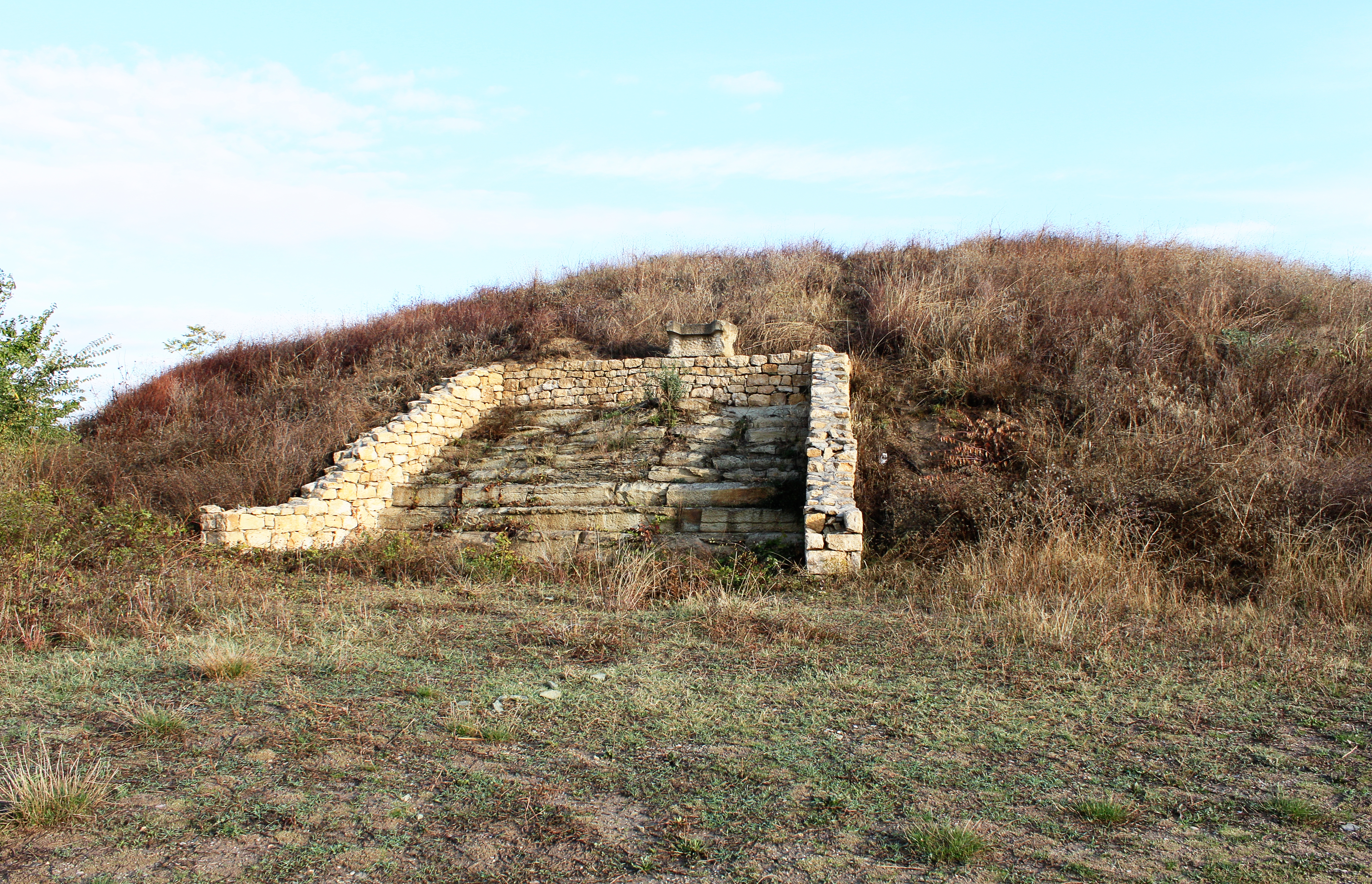 Svirachi, a village in the Rhodope Mountains, Bulgaria